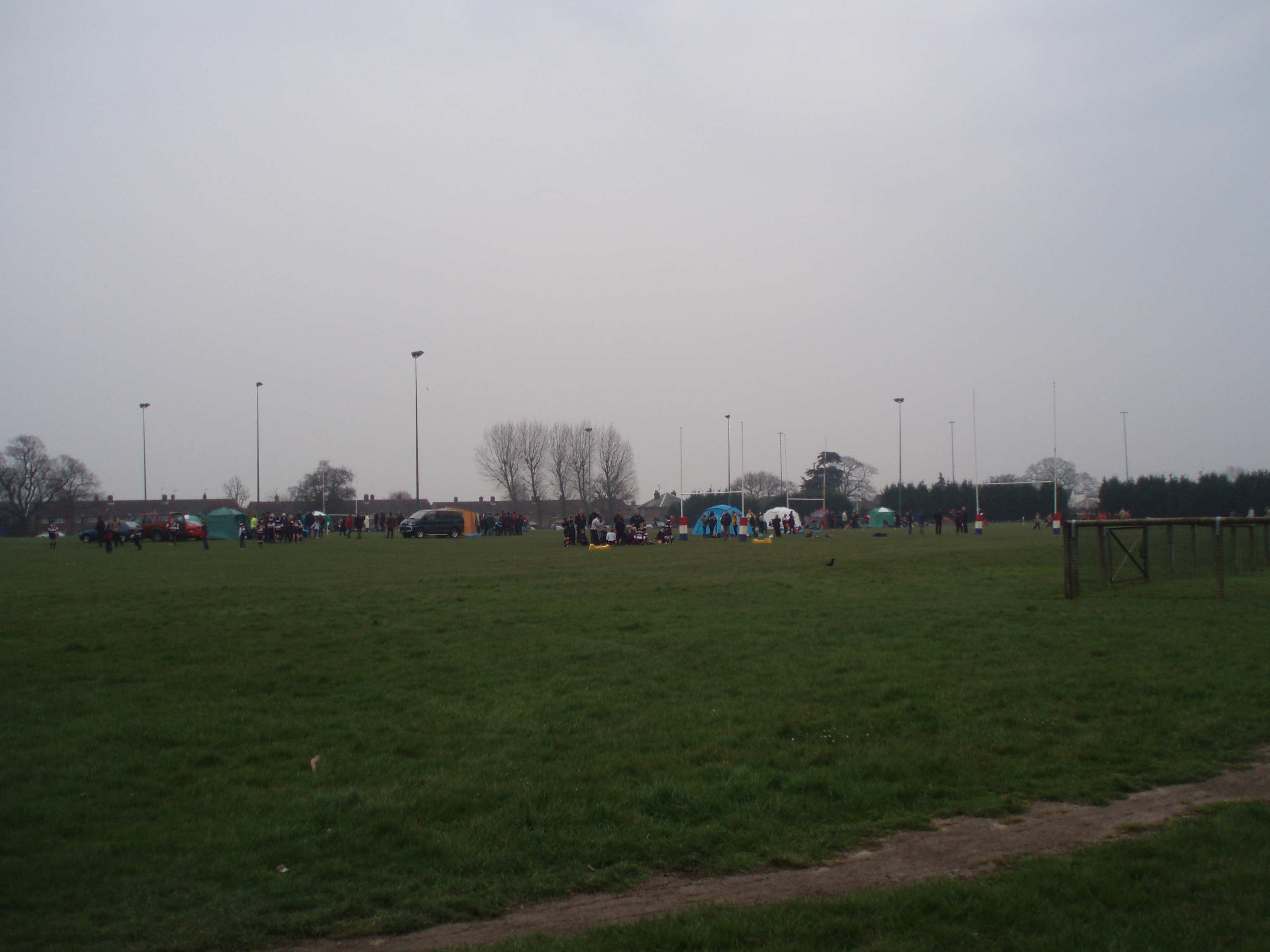 Photo taken by M.Eyre April 3rd 2007